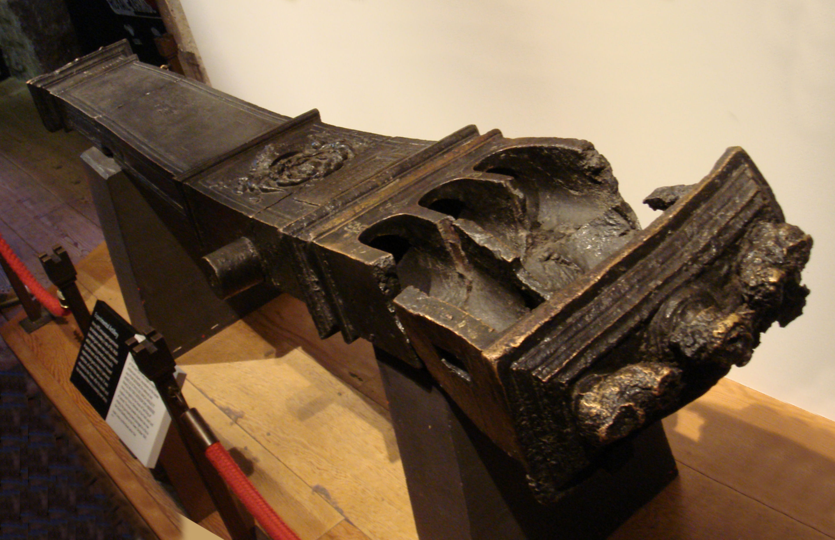 Three_shot_breach_loading_cannon_Henry_VIII_1540_1543.